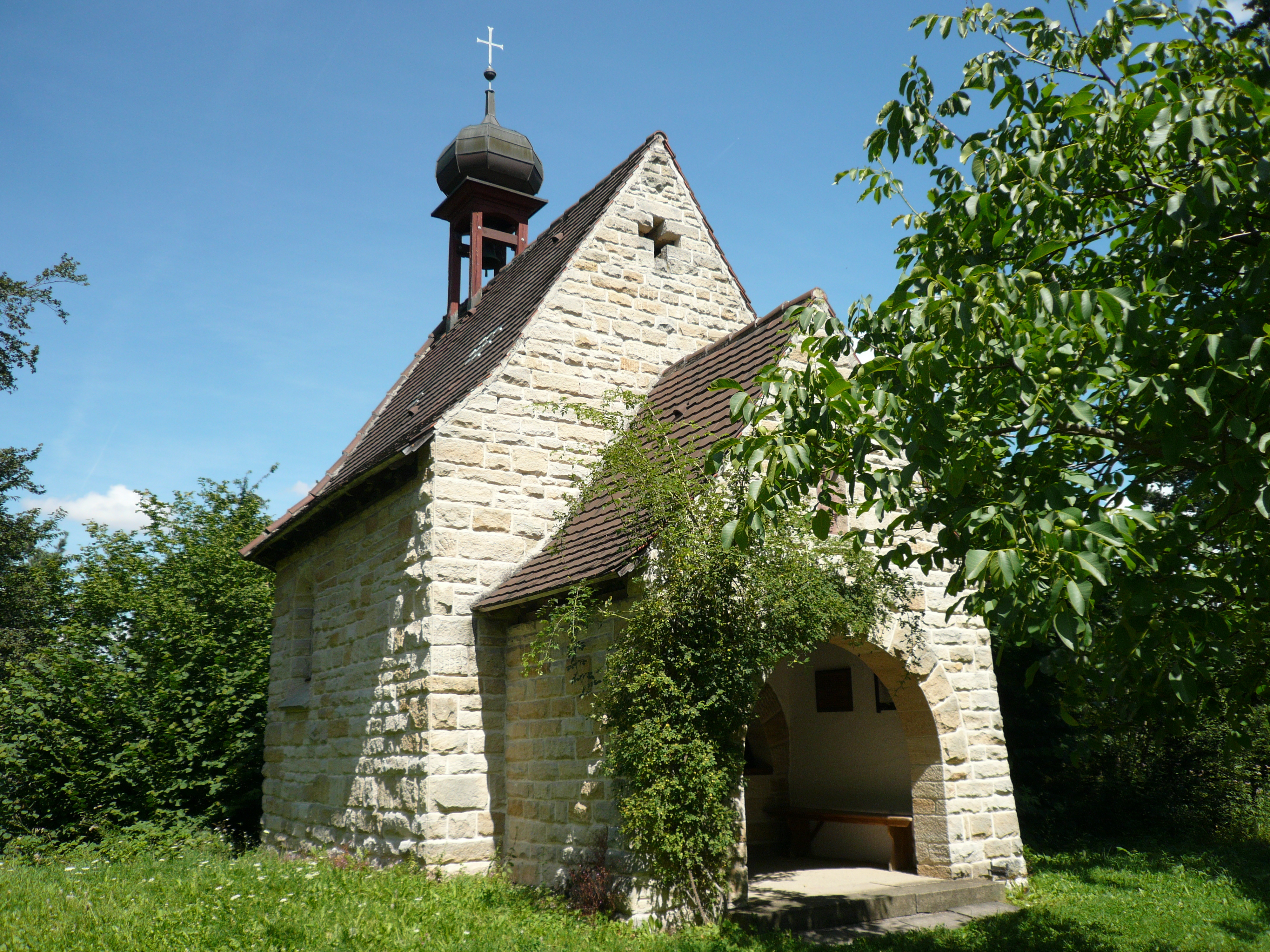 Chapel in the forest near Rottenburg-Oberndorf, built in 1947